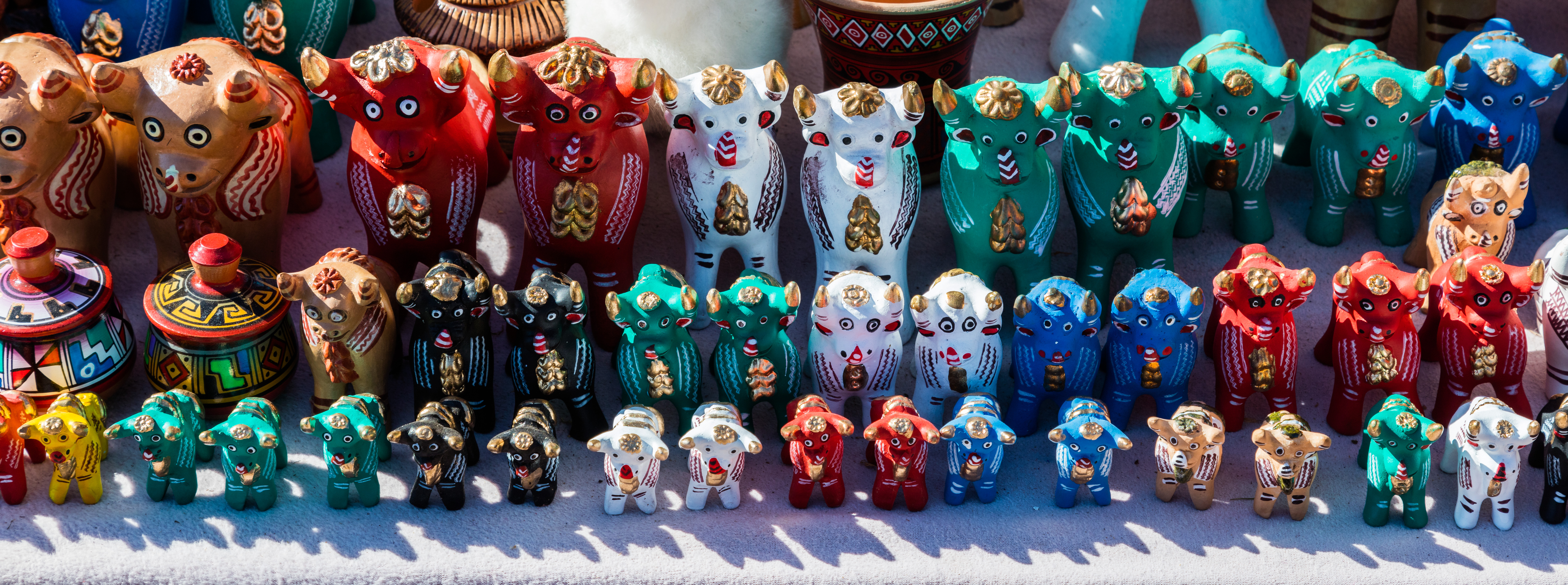 Craftworks in Sillustani, Peru